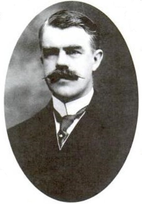 Portrait of Harold Fisher (1877-1928), Mayor of Ottawa from 1917 to 1920.